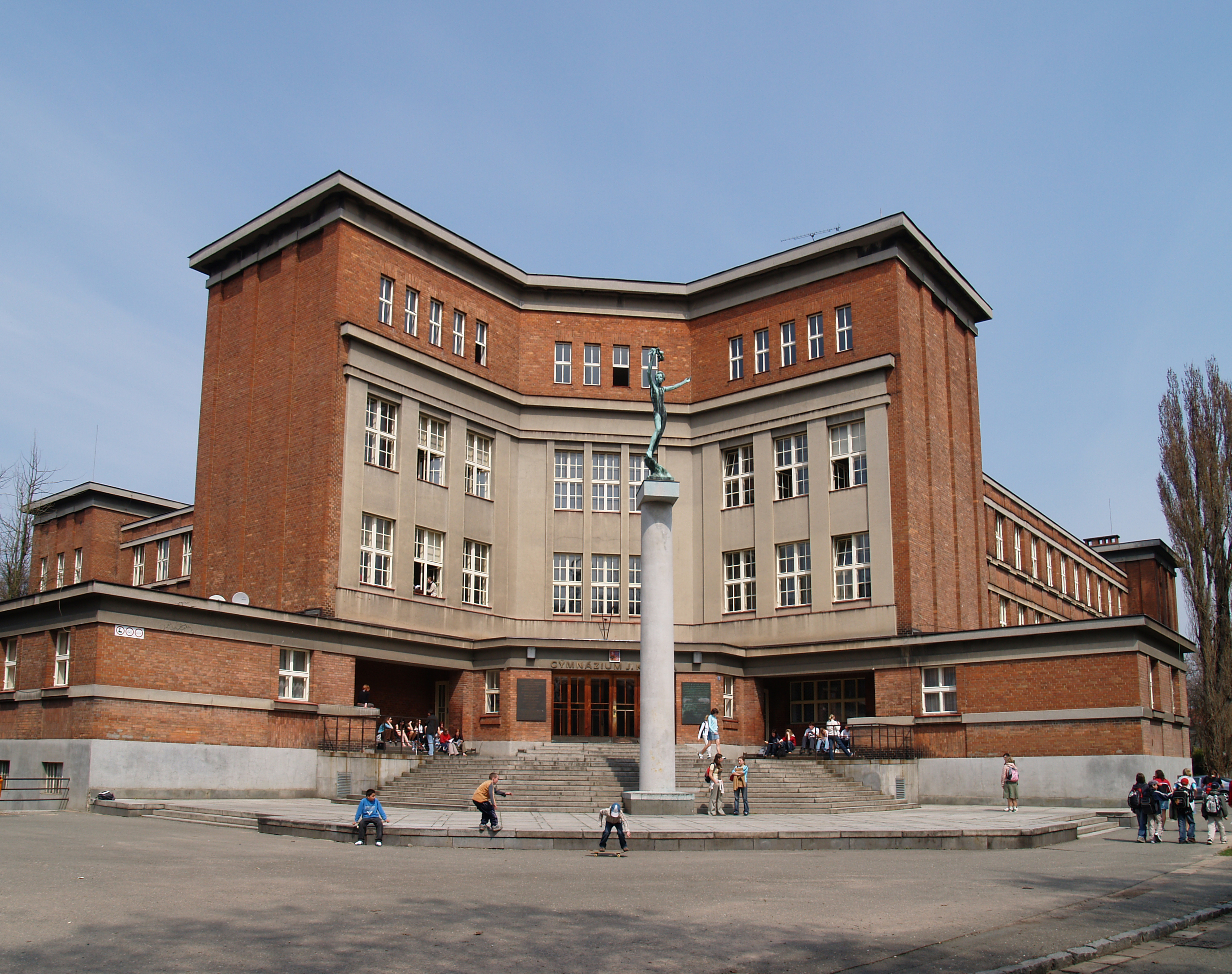 Building of high school in Hradec Králové (Czech Republic) from Josef Gočár.